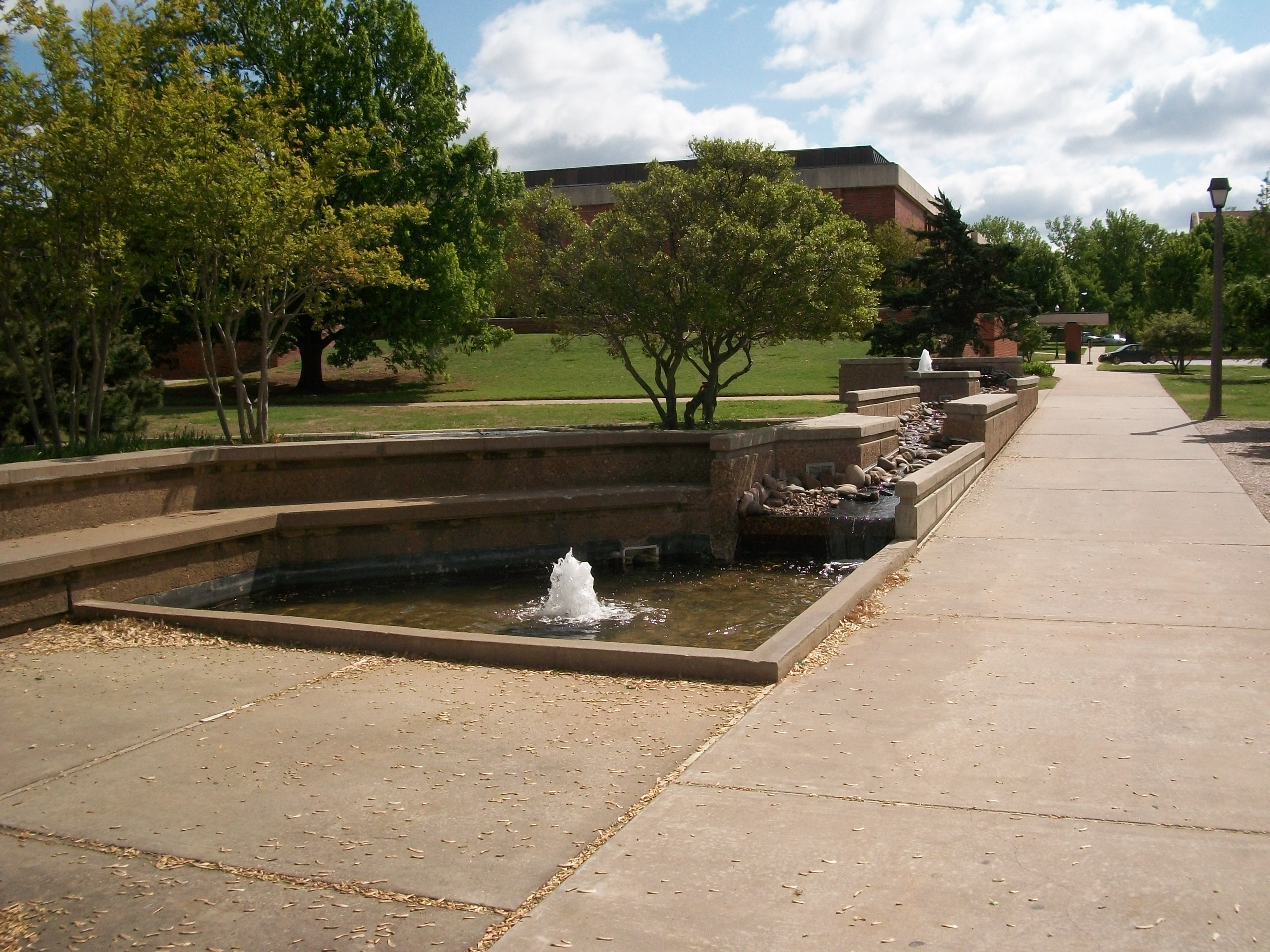 This is a series of fountains at OBU